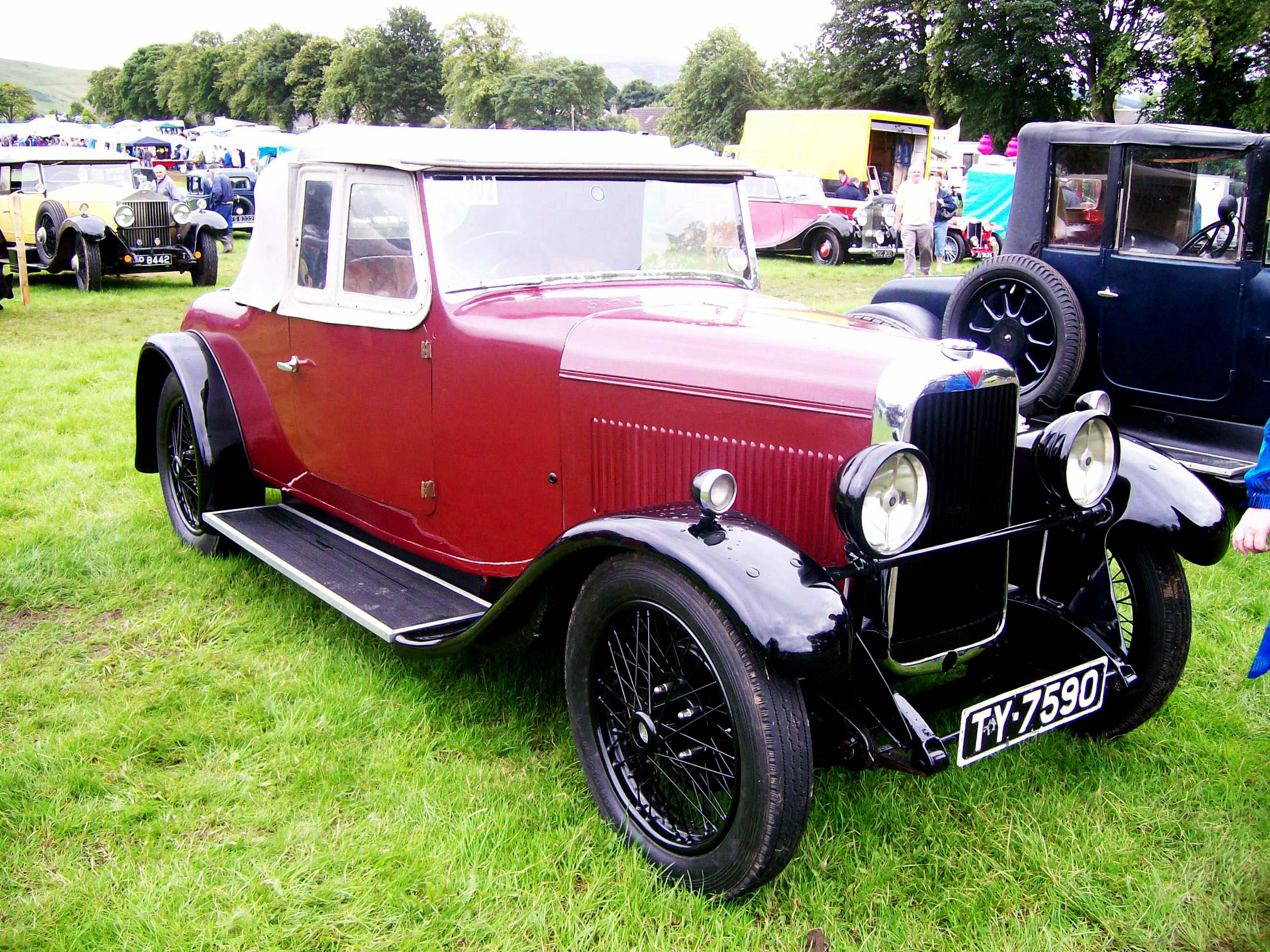 Alvis 12/50 TJ (DVLA) first registered 28 July 1930, 2192cc biggar car fair - jan 2007